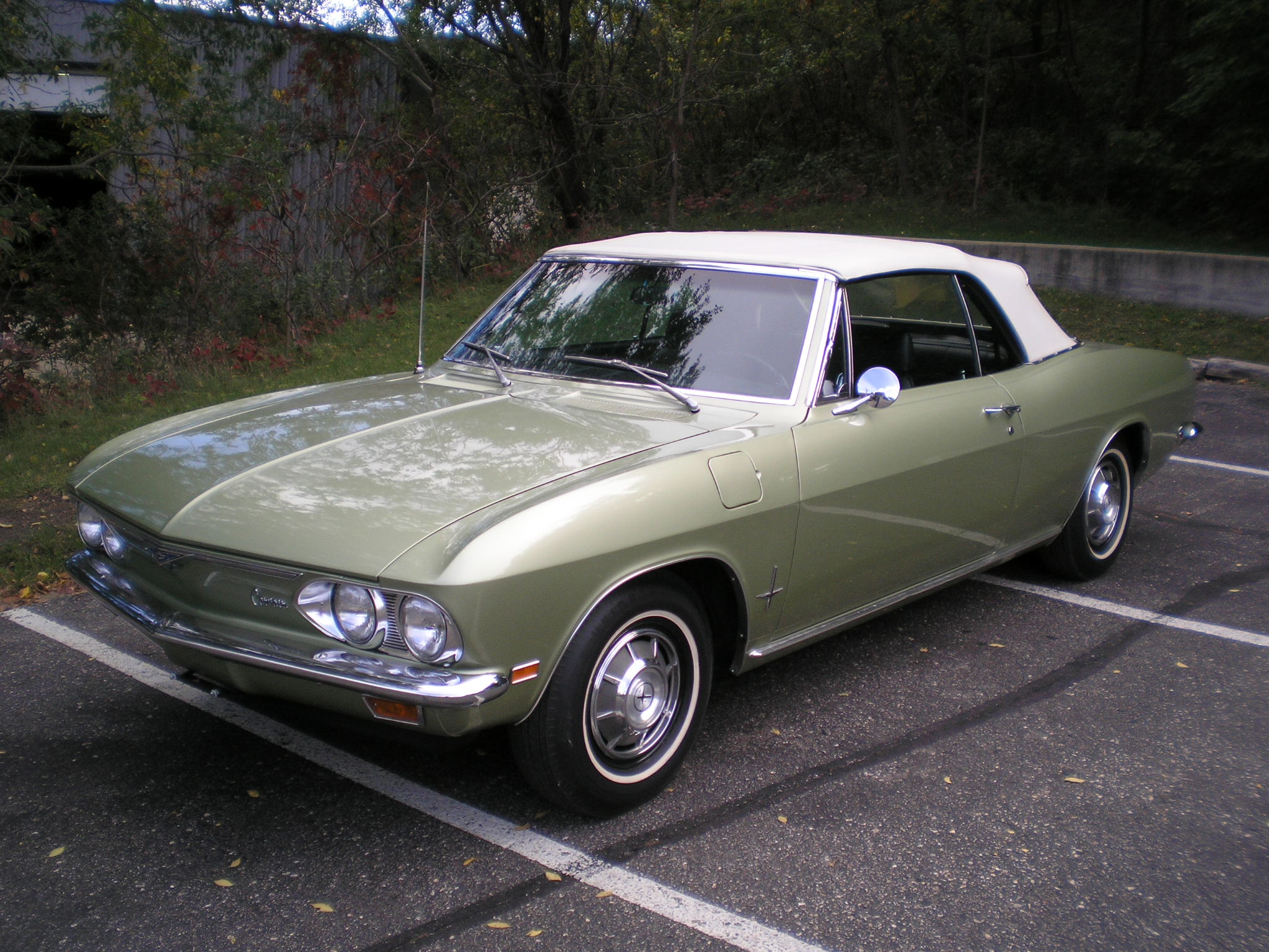 69 Corvair Monza Convertible